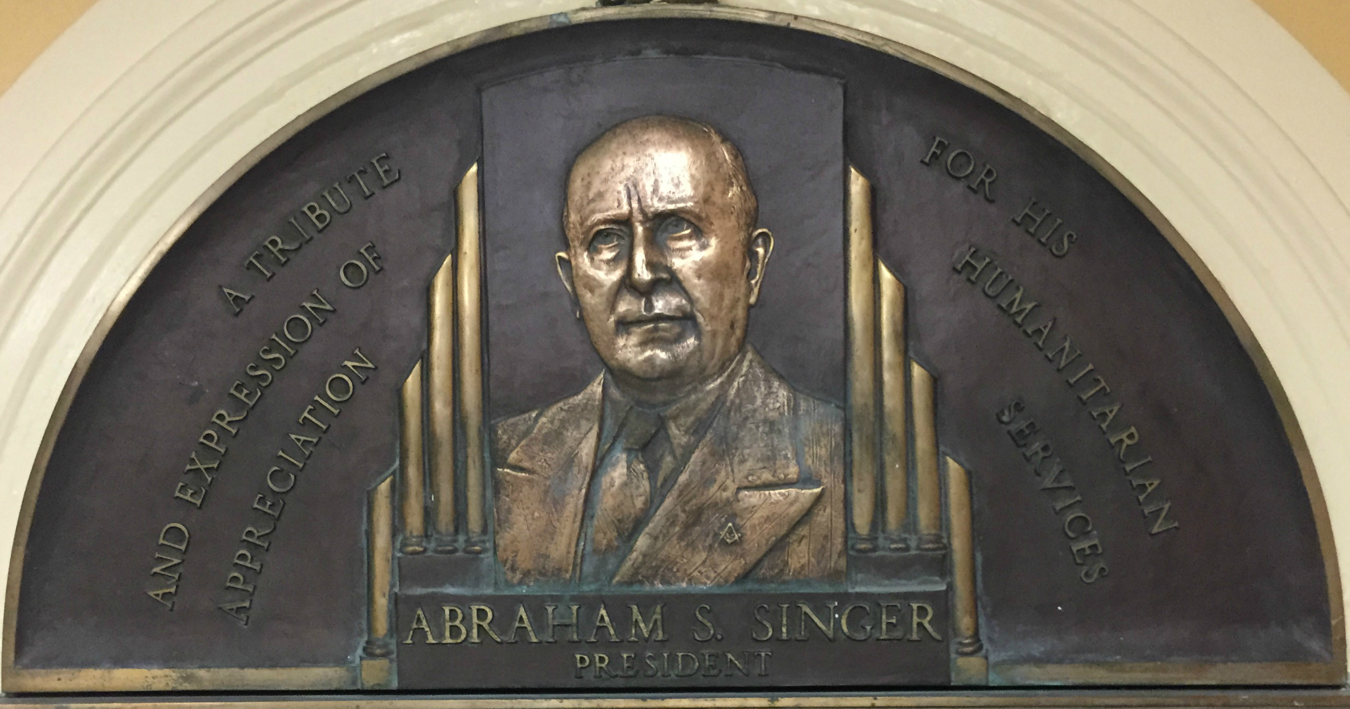 Abraham S. Singer former President of The Jewish Hospital and Sanitarium for Chronic Diseases